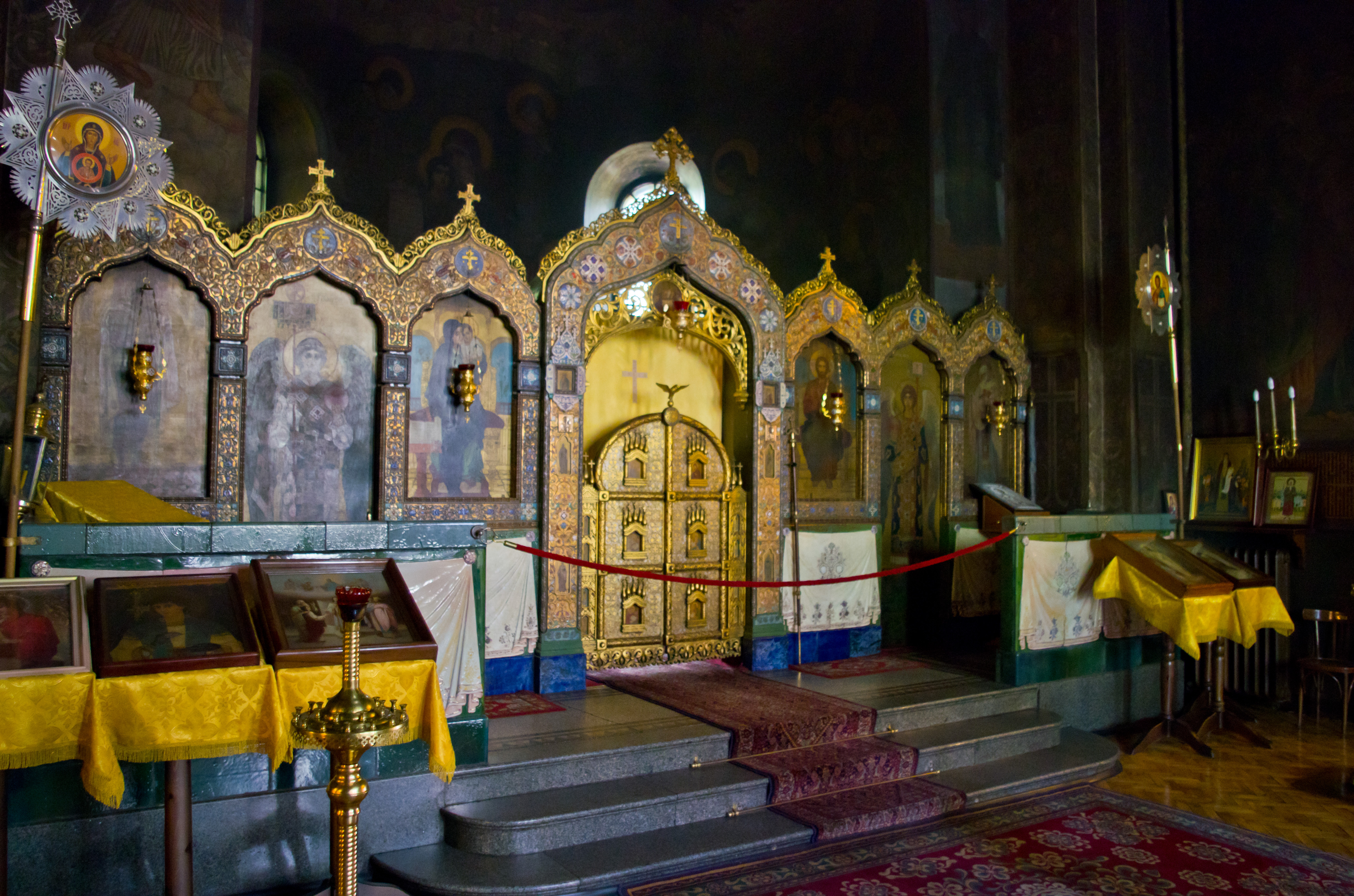 Russian church in Sofia (inside)